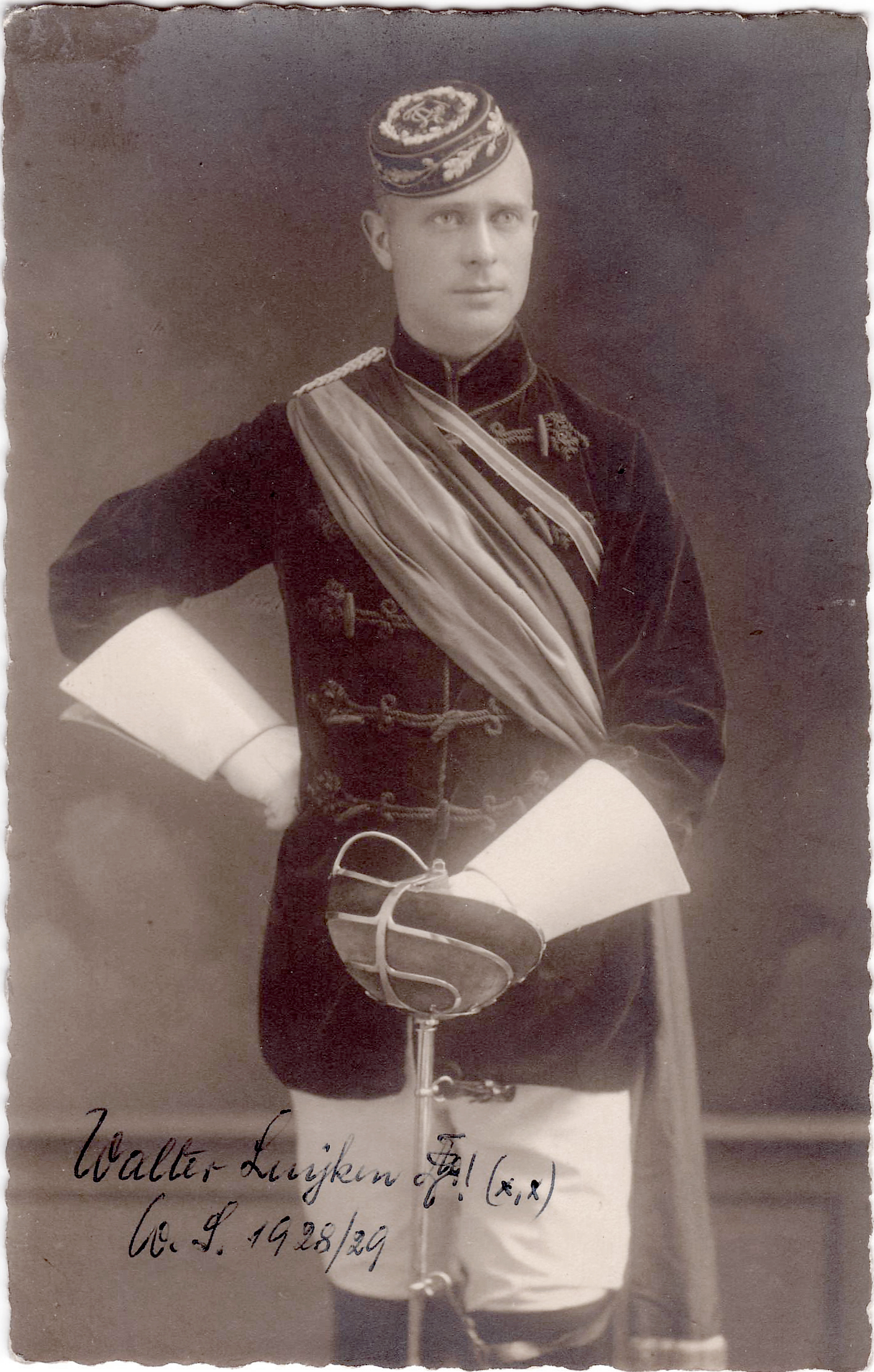 Walter Luyken as corporation Student in Bonn (Germany)